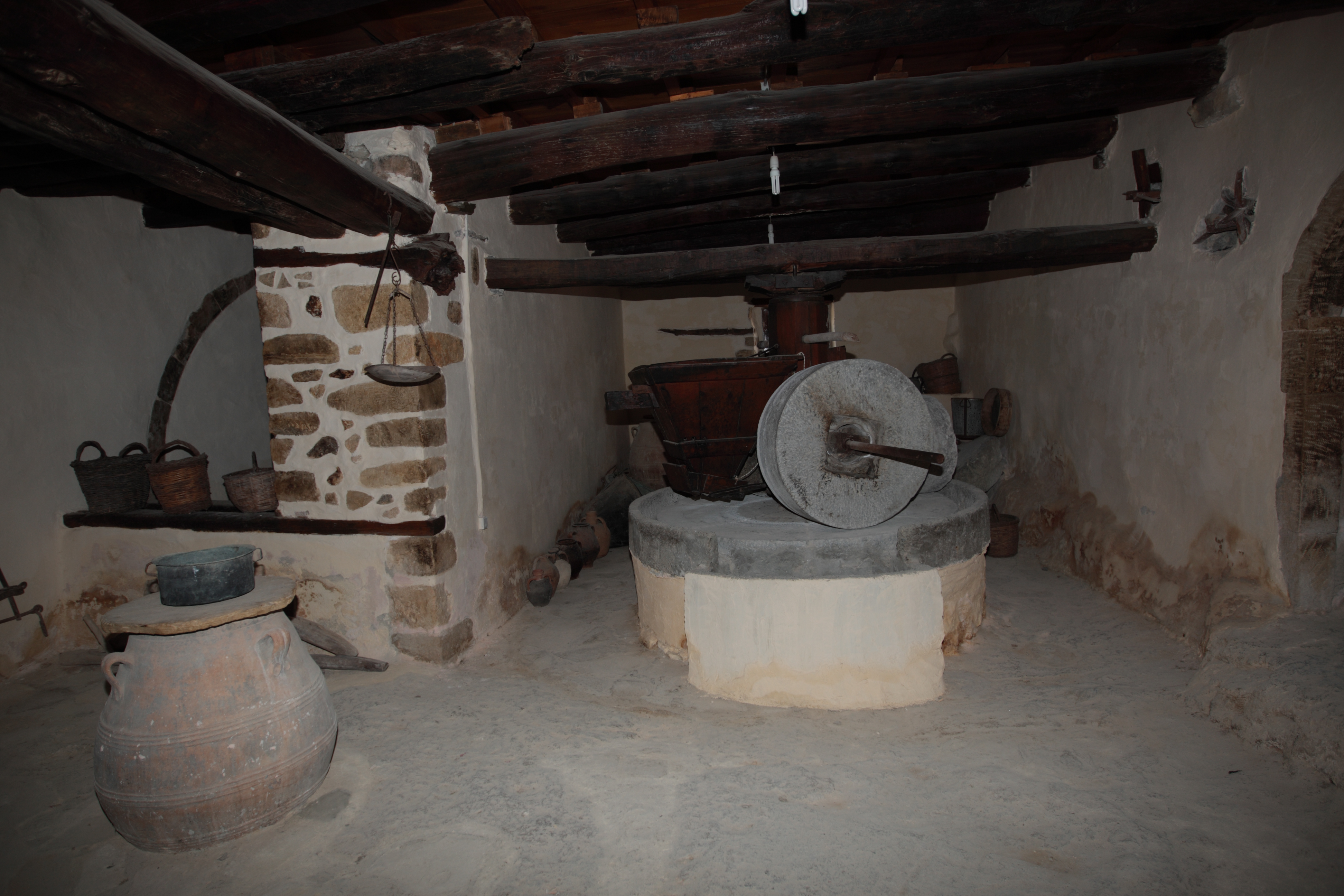 The monastery of Odigitria